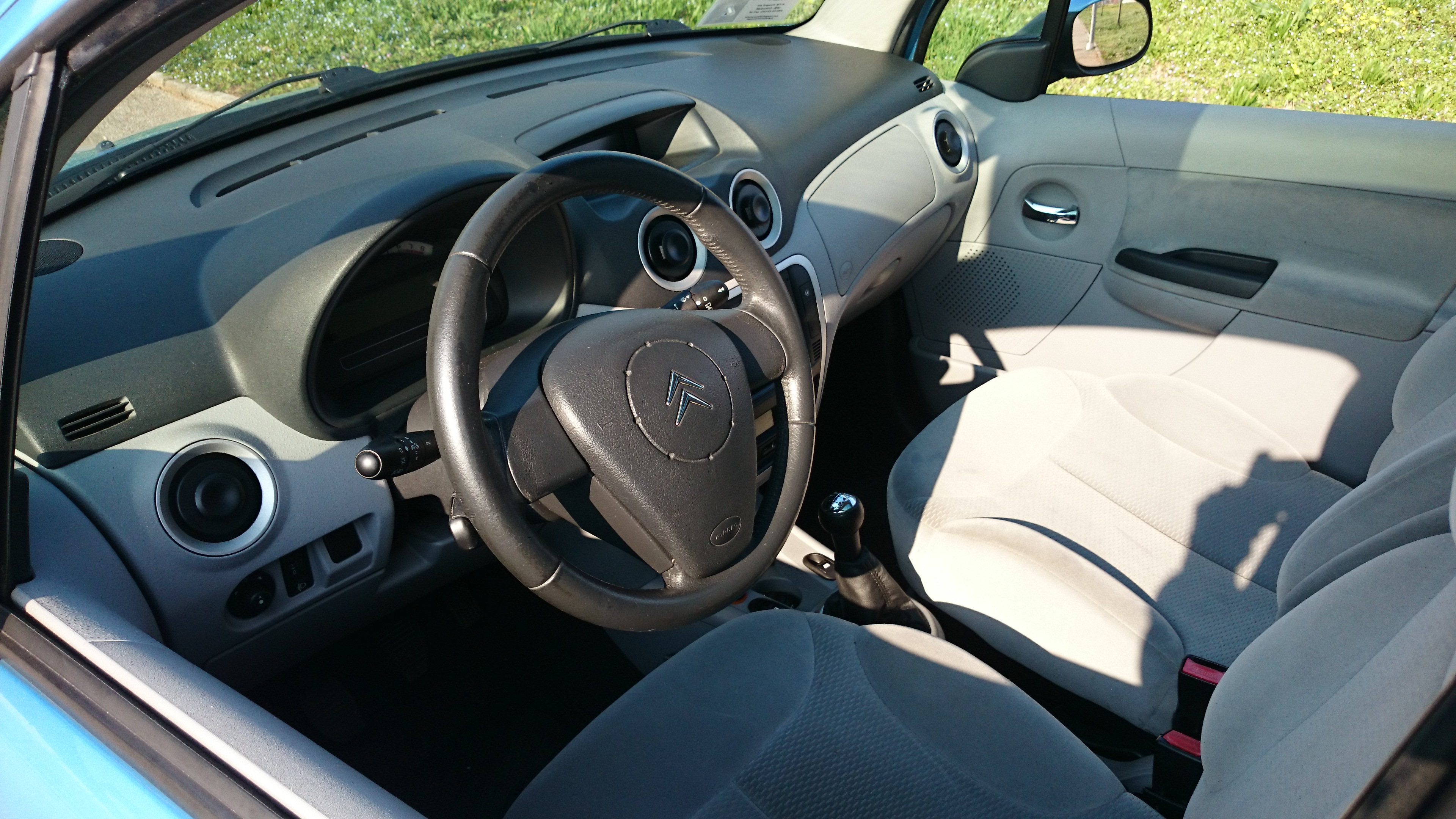 2006 Citroën C3 interior